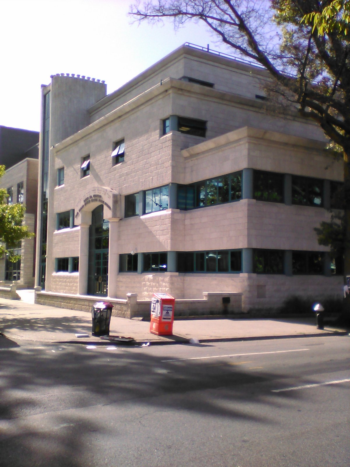 Photograph of a yeshiva building in Queens, NY.